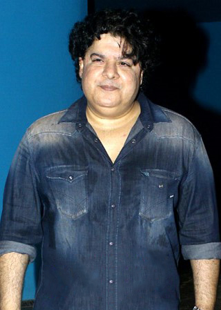 Sajid Khan at Arbaaz Khan’s birthday bash at Su Casa.